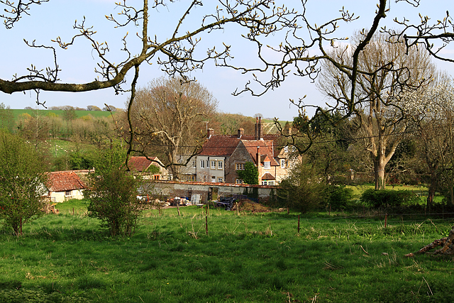 View towards Muston Manor and Muston Farm Muston Manor is identified only on the 1:25,000 OS map, and is adjacent to Muston Farm. The earliest record of the manor is recorded in the Domesday Book, but the manor house dates only from the late C17. Grade II listed.